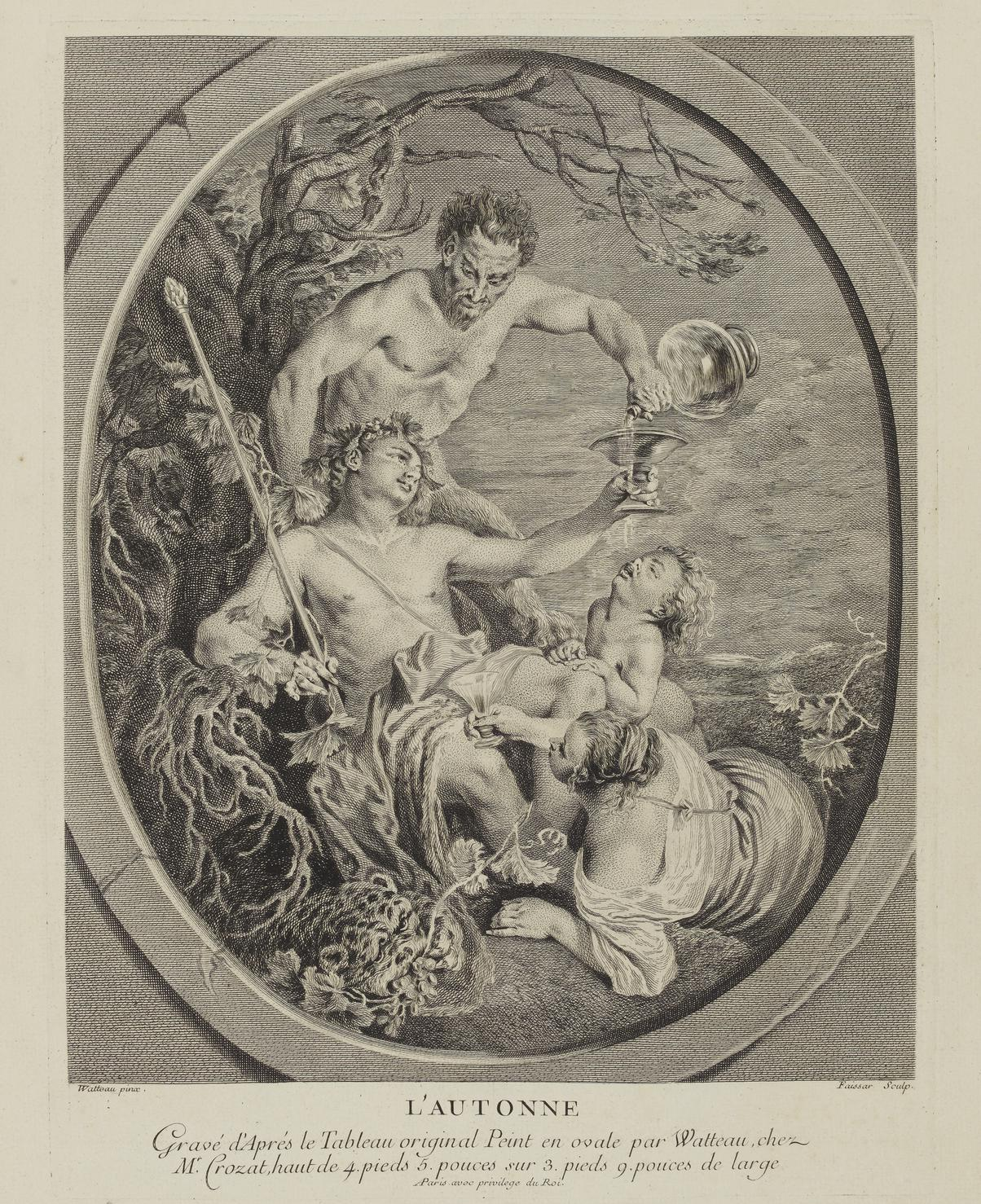 THE BRITISH MUSEUM: Title: Object: L'Autonne Series: L'Oeuvre d'Antoine Watteau Peintre du Roy Series: Recueil Jullienne Series: Four Seasons Description Autumn: Bacchus leaning on a trunk and holding out a goblet in which a satyr leaning over him is pouring some wine; at the god's feet, a putti and a Bacchante also holding out a glass; within oval frame. 1726/35 Etching with some engraving Producer name: Print made by: Étienne Fessard After: Antoine Watteau School/style: French Production date: 1726-1735 Production place: Published in: Paris (France) Europe: France: Ile-de-France (region): Paris (France) Materials: paper Technique: etching Dimensions: Height: 450 millimetres Width: 340 millimetres Inscriptions: Inscription type: inscription Inscription content: Lettered with names of designer and engraver, title and inscription in French, and publication line : 'AParis avec privilege du Roy'. Curator's comments: Plate 106 from 'L'Oeuvre d'Antoine Watteau'; see 1838-5-26-1-1 for comment. Part of a subset of four plates engraved after four paintings commissioned by Pierre Crozat for his living room (c.1711). Bibliographic references: Dacier & Vuaflart 1921-29 / Jean de Jullienne et les graveurs de Watteau au XVIIIe siècle (107.III) Associated names: Representation of: Dionysos/Bacchus Acquisition name: Purchased from: John Constable (his sale, Foster's, London, 12.v.1838/497 (containing two Watteau volumes), bt by William Smith for £31.10.0) Previous owner: Previous owner/ex-collection: John Barnard Acquisition date: 1838 Department: Prints and Drawings Museum number: 1838,0526.1.106